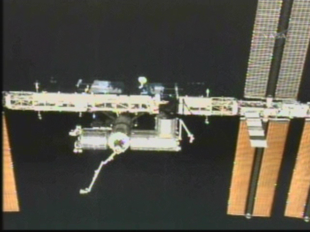 Single, slow scan tv frame of STS-126 ISS station flyaround.